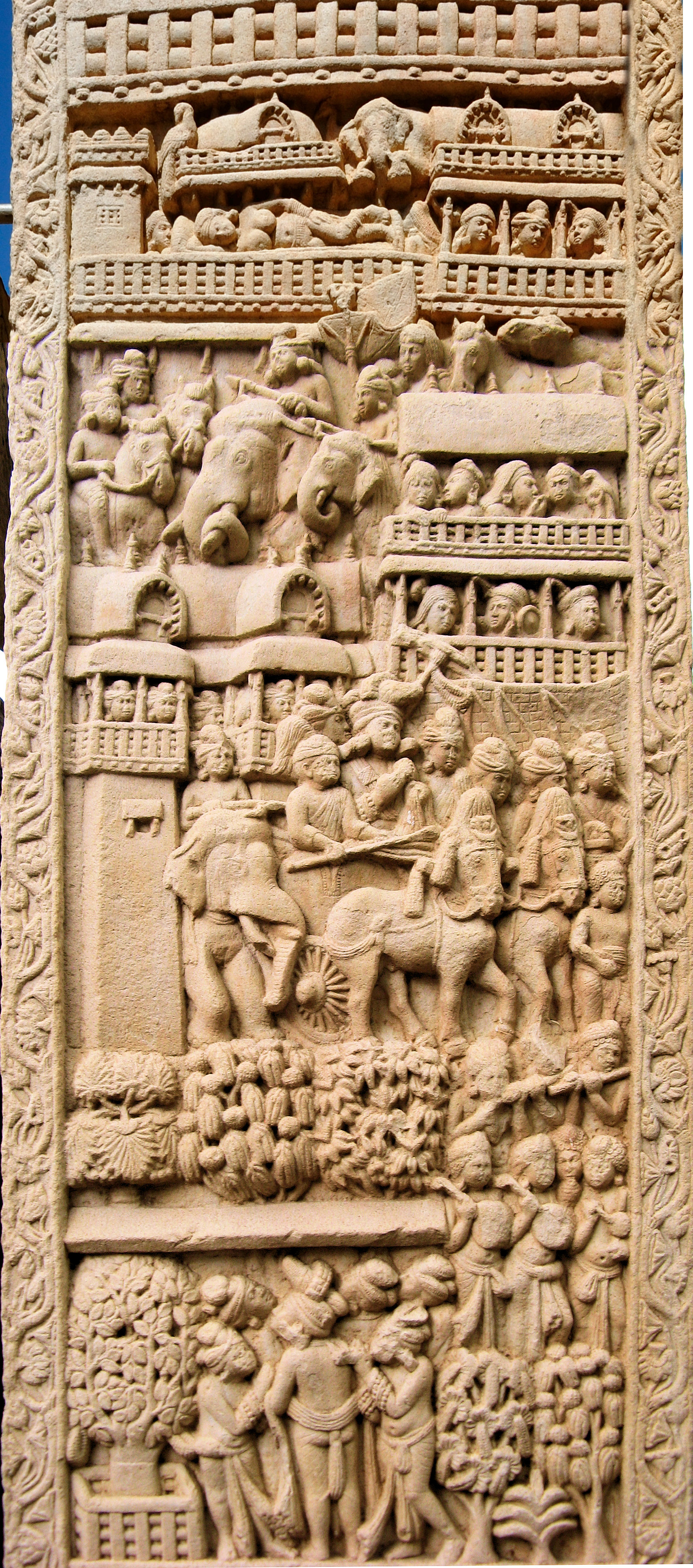 Procession of king Śuddhodana from Kapilavastu in full Sanchi Stupa 1 Eastern Gateway.